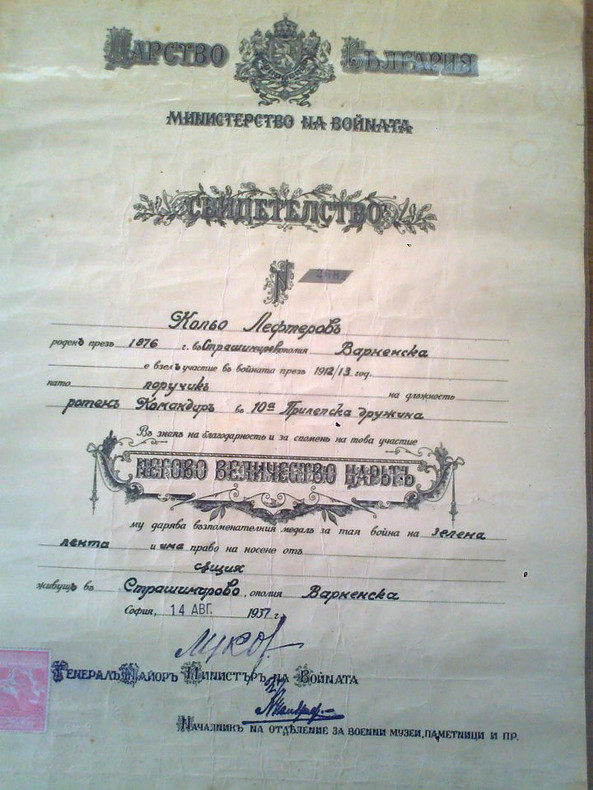 Nikola Lefterov's MAVC Medal Certificate